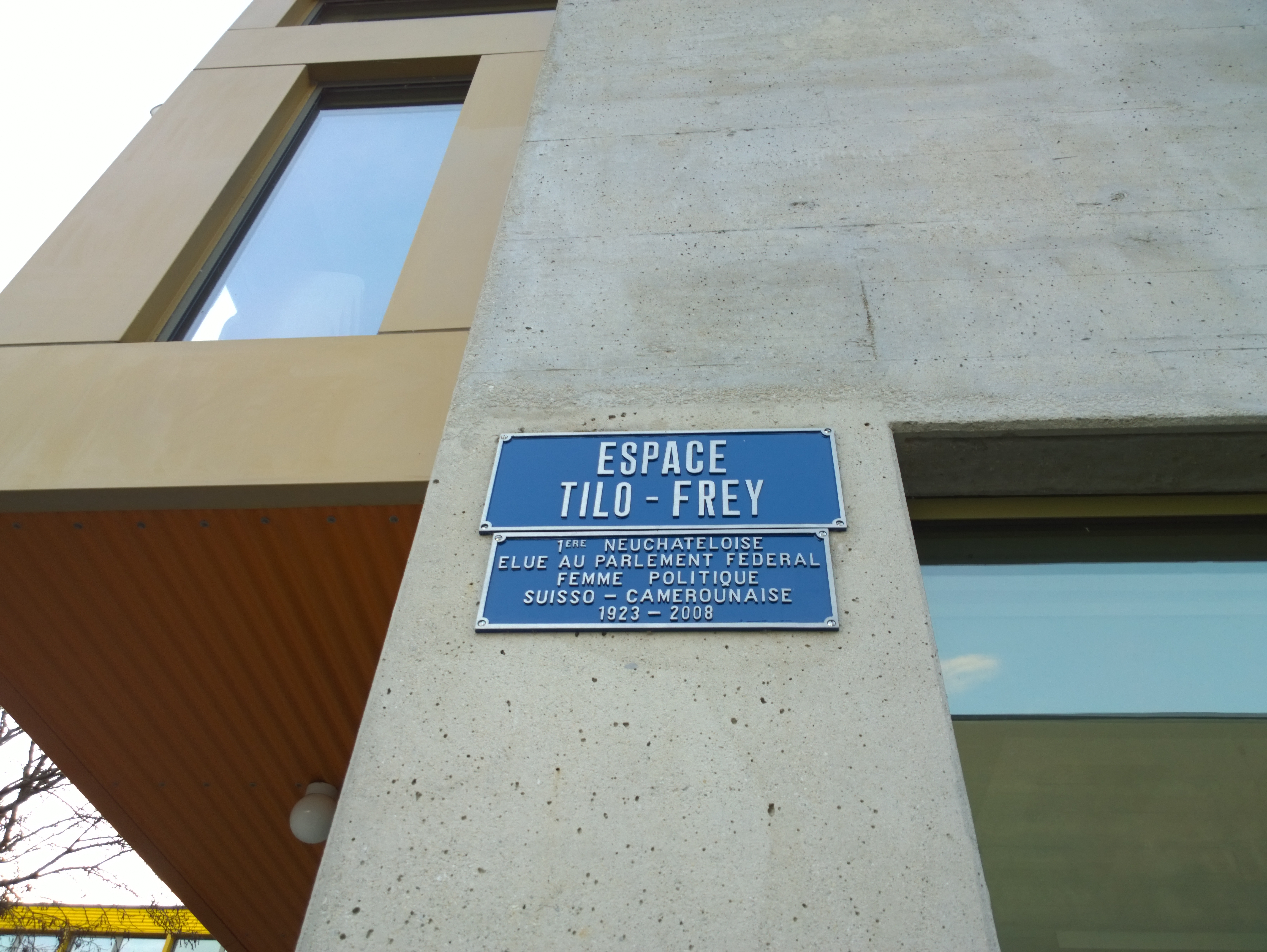 Plaque of the Tilo-Frey square, former Louis-Agassiz square (University of Neuchatel), after the name change in 2018.